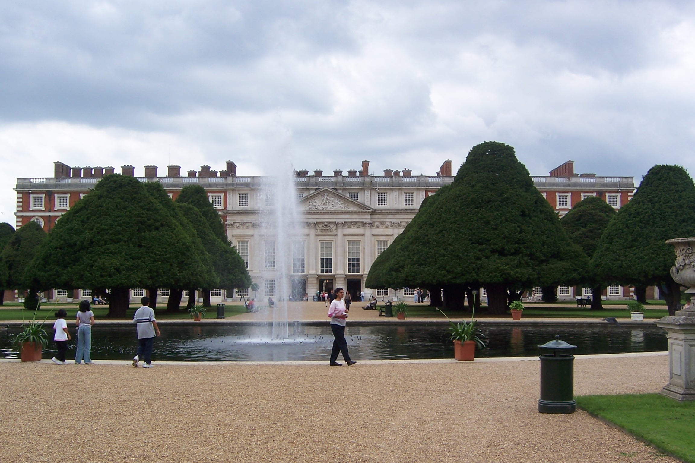 Hampton Court, rear view, including the fountain. Hampton Court Palace, United Kingdom